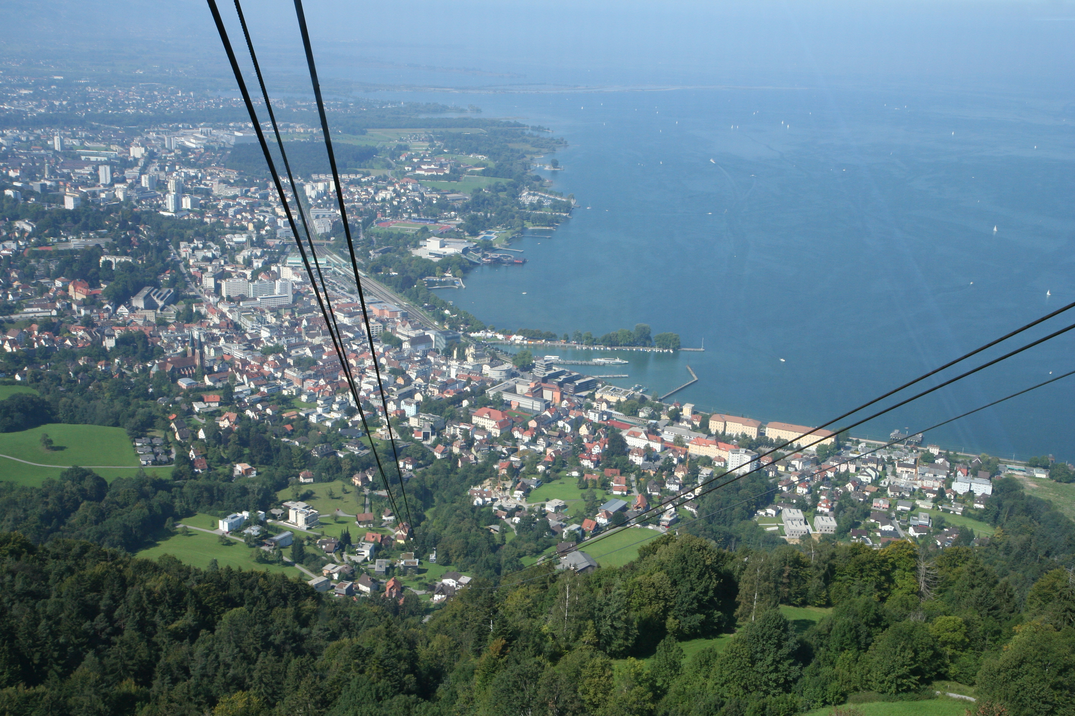 View on the city of Bregenz from the Pfänderbahn